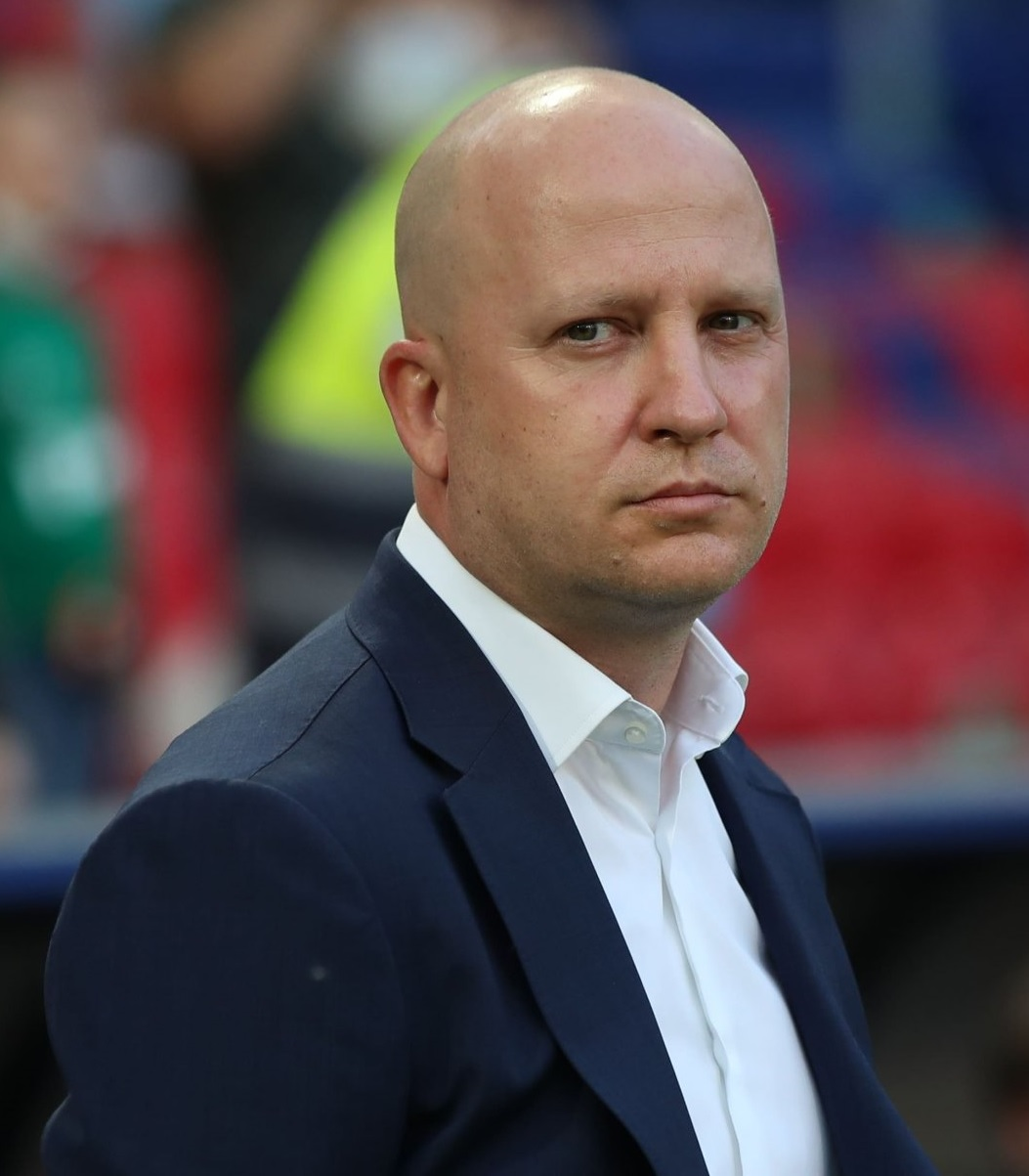 Marko Nikolić coaching FC Lokomotiv Moscow in a 2020 Russian Super Cup game against FC Zenit Saint Petersburg.